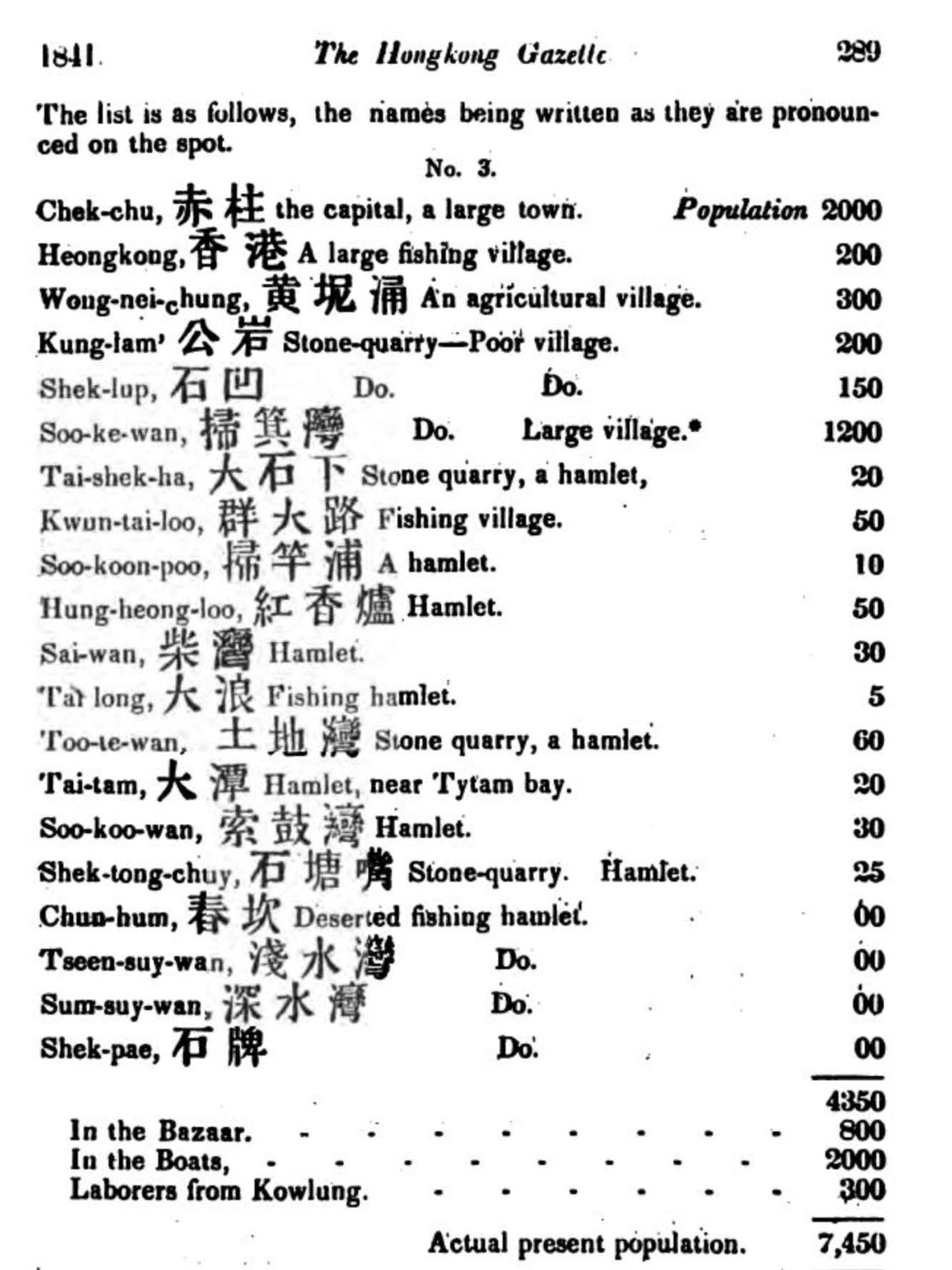 The estimate of population calculated by the British people when they first landed on the Hong Kong Island in 1841. The statistic was published in the Chinese Repository. It shows that there were only about 7,500 people in Hong Kong at that time.